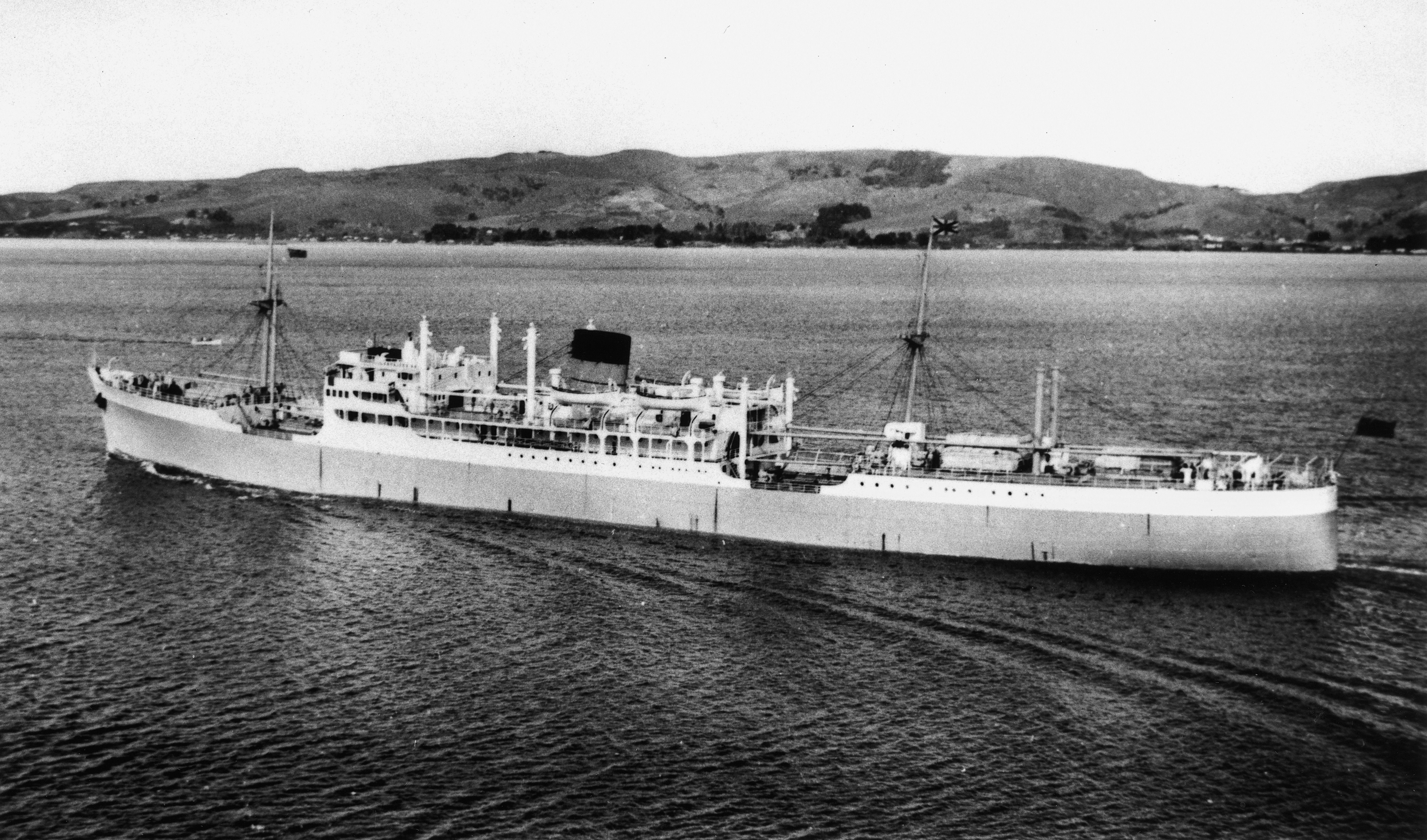 Port Line (Commonwealth and Dominion Line) 11,834 GRT cargo ship MV Port Napier, built by Swan Hunter in 1947 and scrapped in Taiwan in 1970